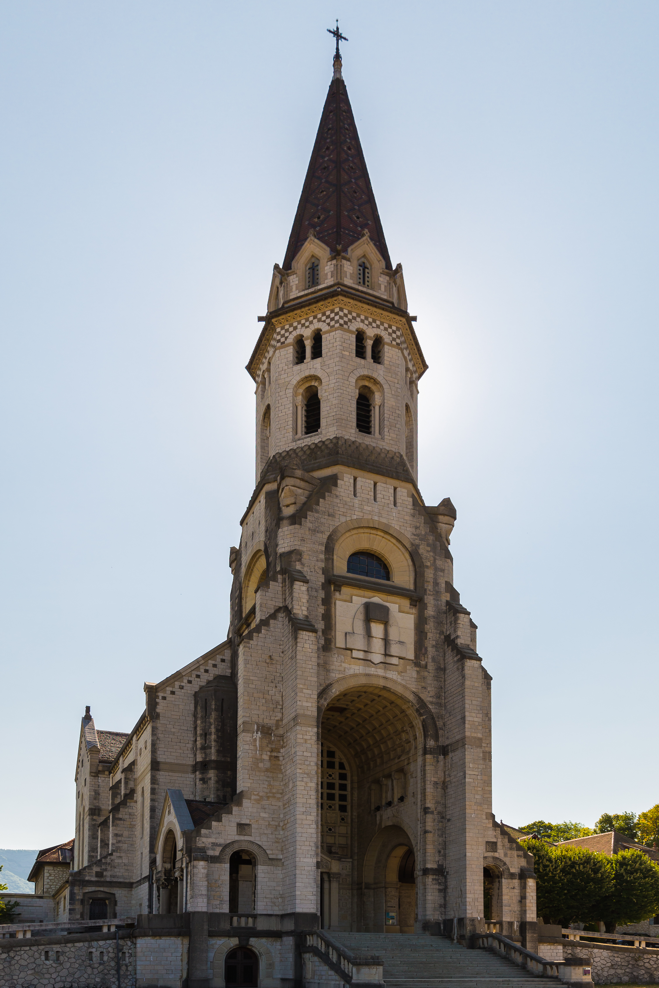 West face of the basilique de la Visitation in Annecy, France